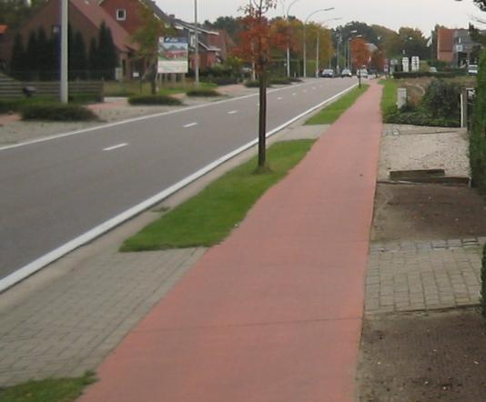 Empty cycleway in Minderhout, Belgium.